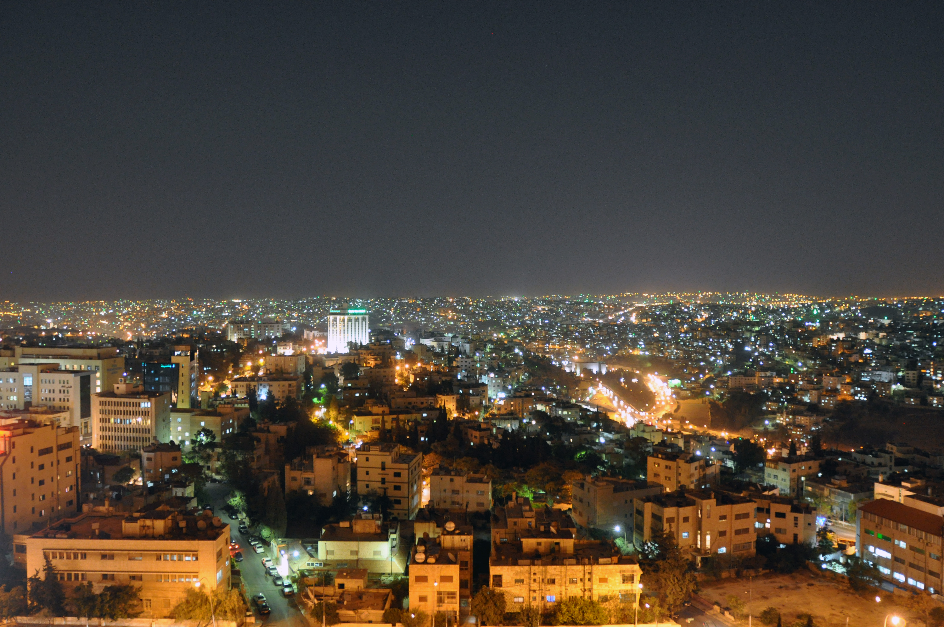 Amman, Jordan at night on October 27th, 2009. (U.S. Army photo by Staff Sgt. Jim Greenhill)